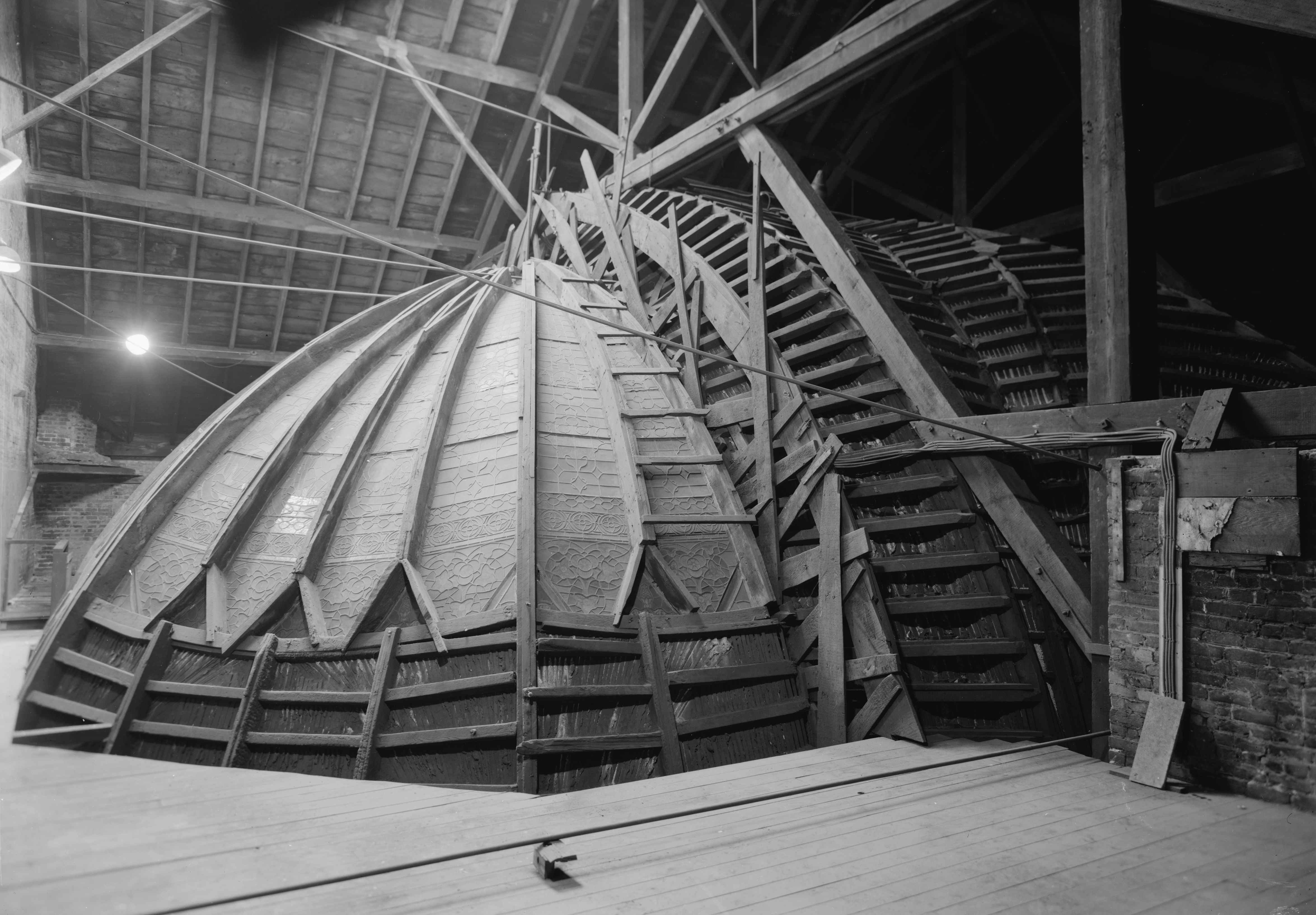 St. Patrick's Church, New Orleans, interior: CONSTRUCTION DETAILS OF STAINED GLASS APSIDAL VAULT OVER MAIN ALTAR